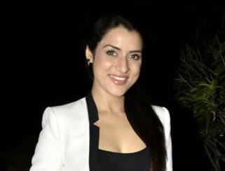 Simple Kaul at the launch of GR8! Love Stories Calendar 2014